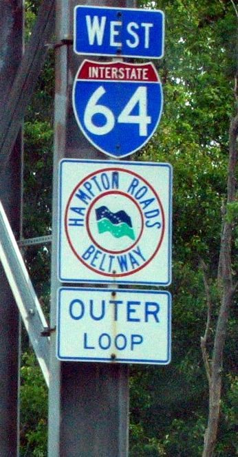 I took this picture on I-64 in the Hampton Roads area and I release it.